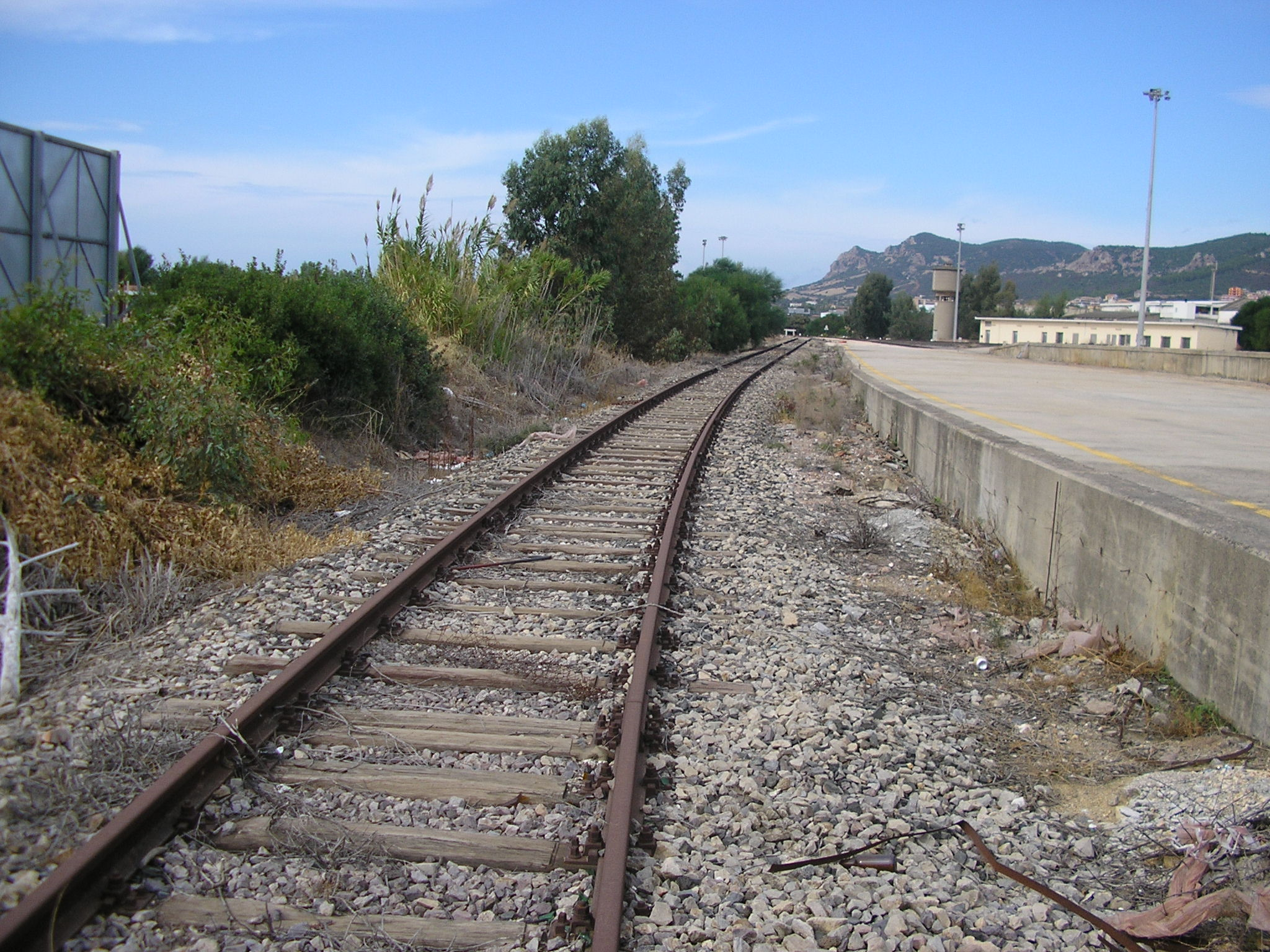 Track of the raillink between the FS station of Carbonia Stato and the Serbariu coalmine, in Sardinia, Italy